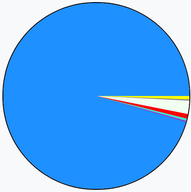 Religion in Greenland